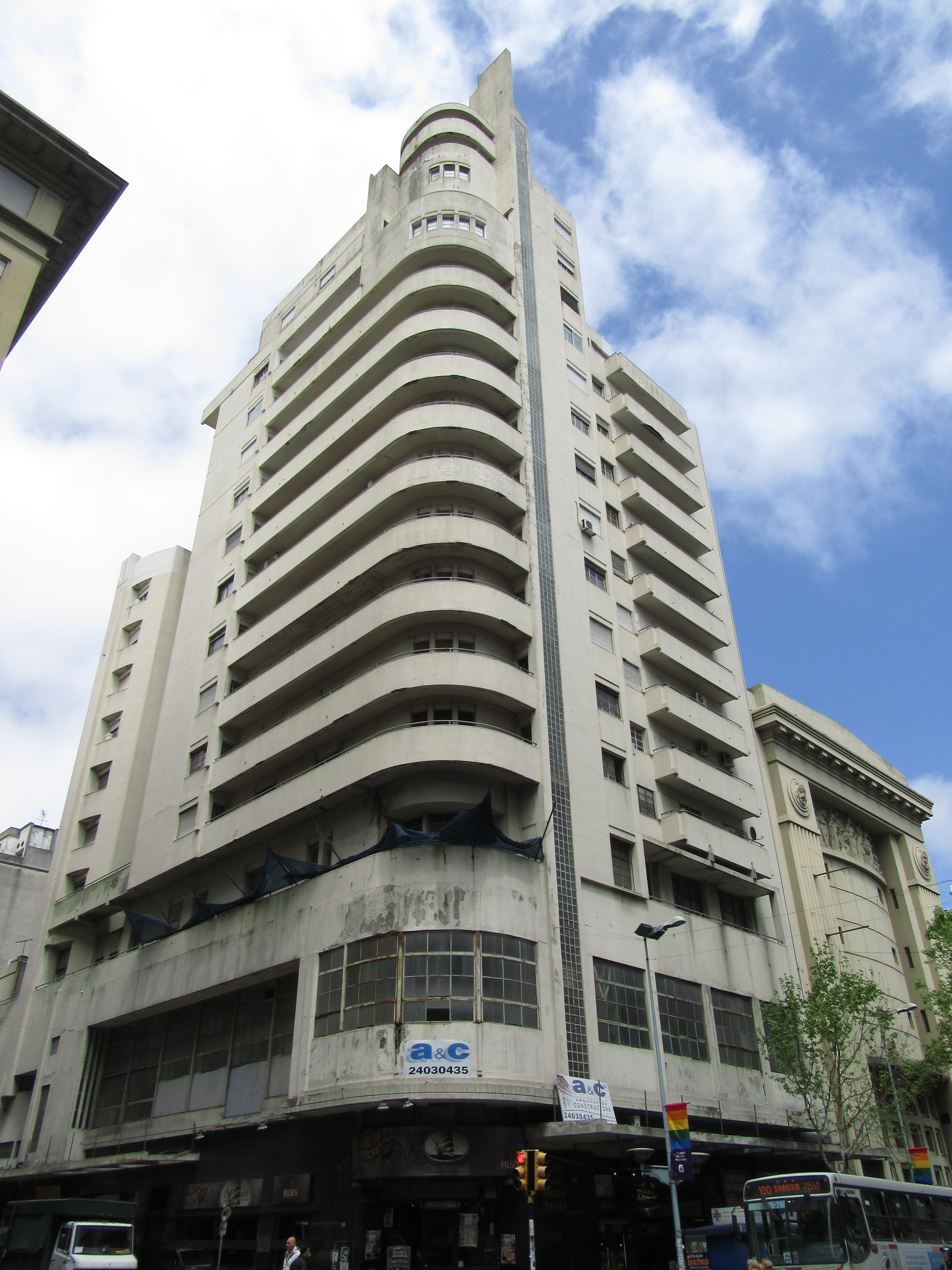 Montevideo